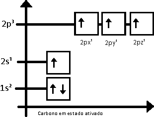 Carbon